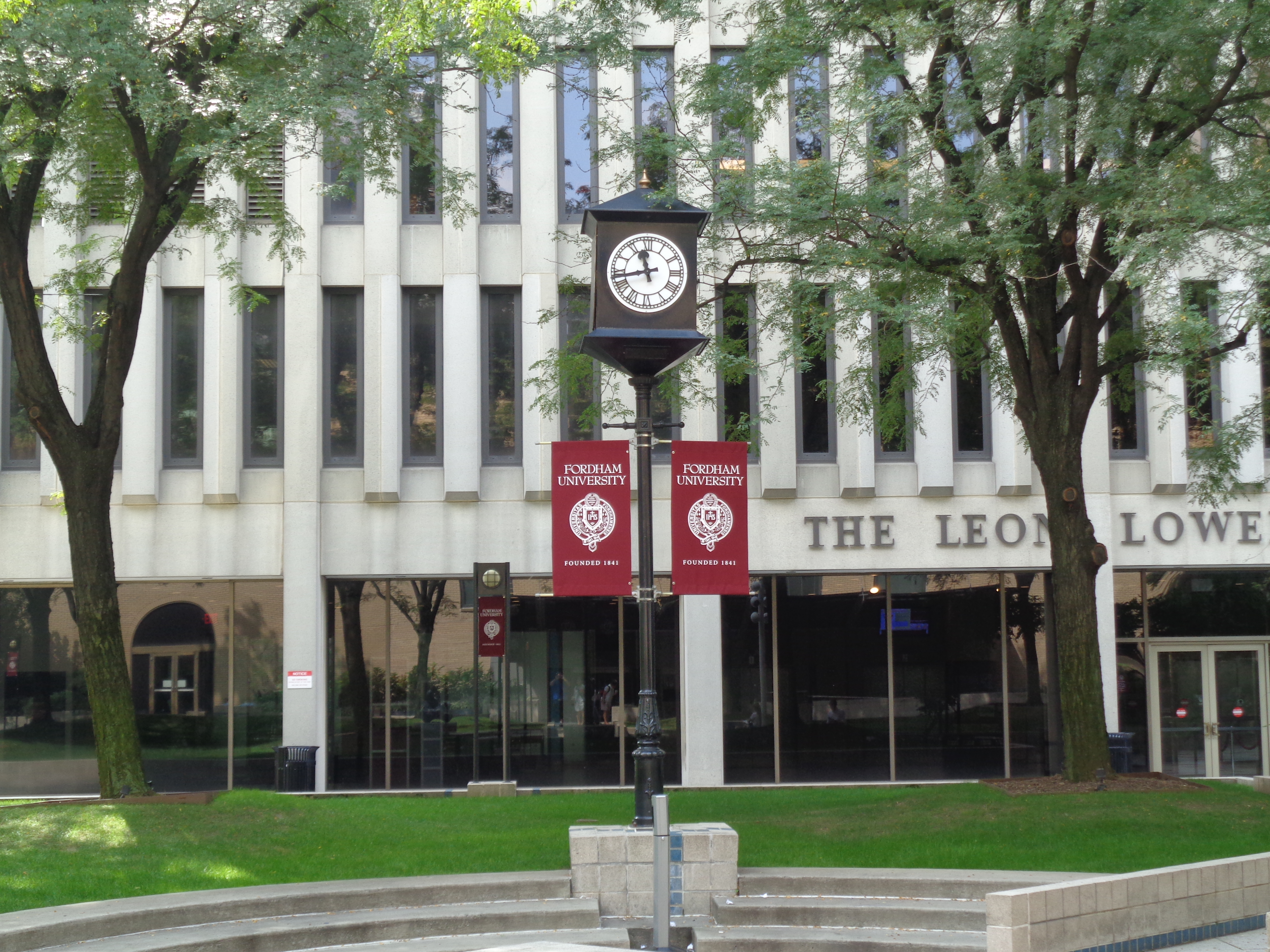 Robert Moses Plaza on the second floor terrace of Fordham University's Lincoln Center Campus in Lincoln Center, Manhattan.